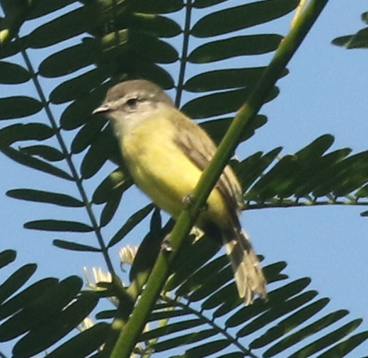 Aligandi area - Darien, Panama